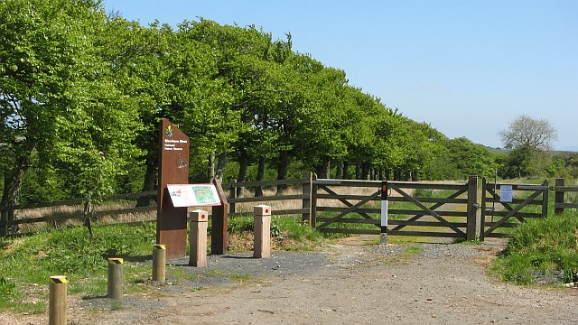 Blawhorn Moss car park Car park and path to the raised bog nature reserve at Blawhorn Moss